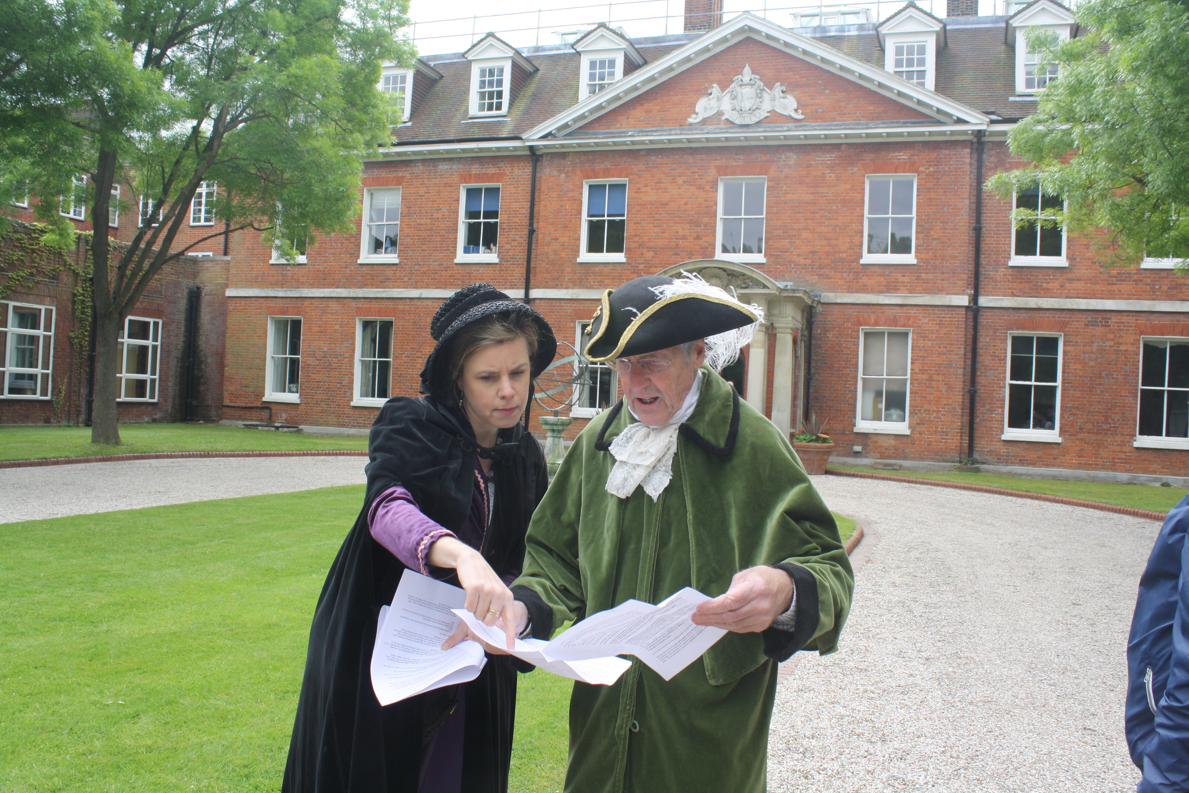 Heritage walk leaders, in front of Bromley Bishops Palace.